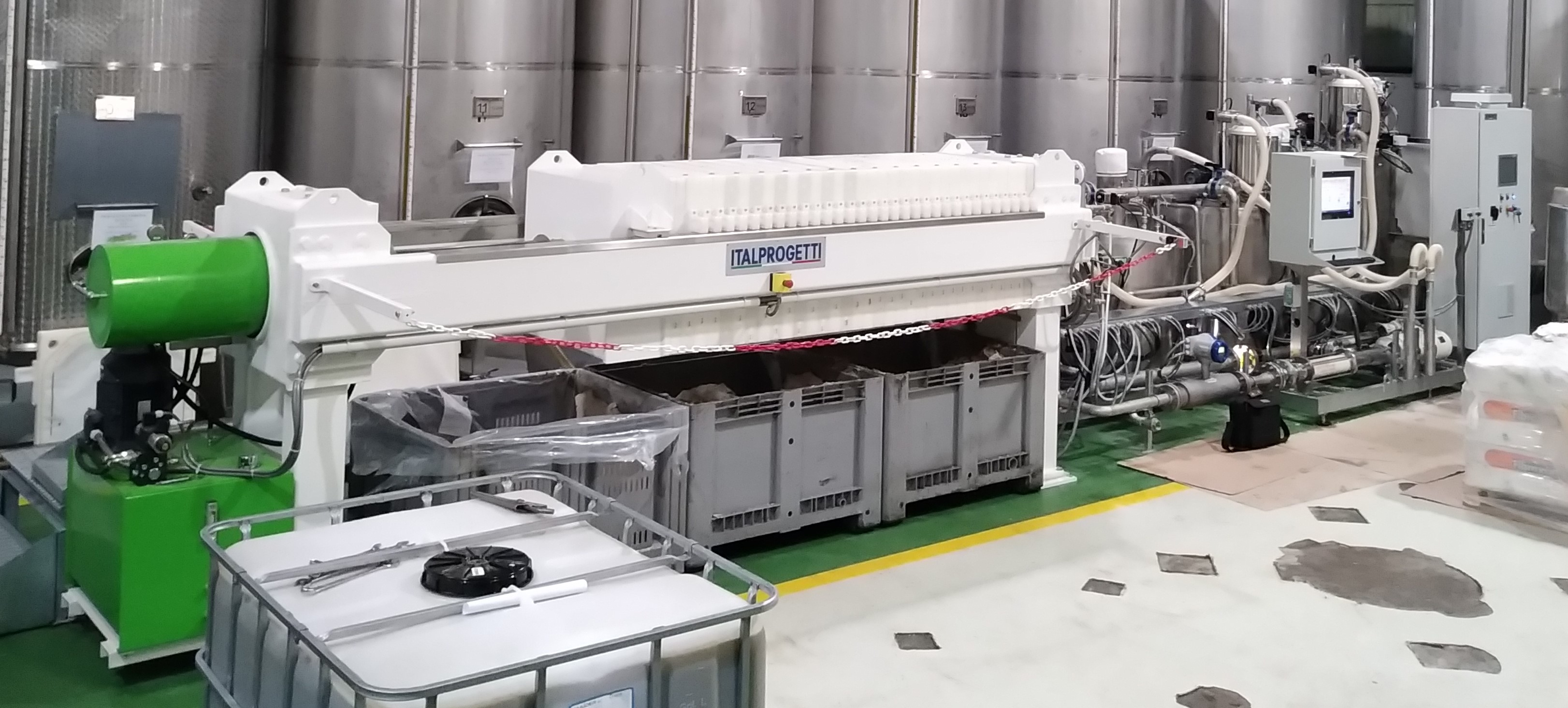 Membrane filter press used in the filtration of olive oils.